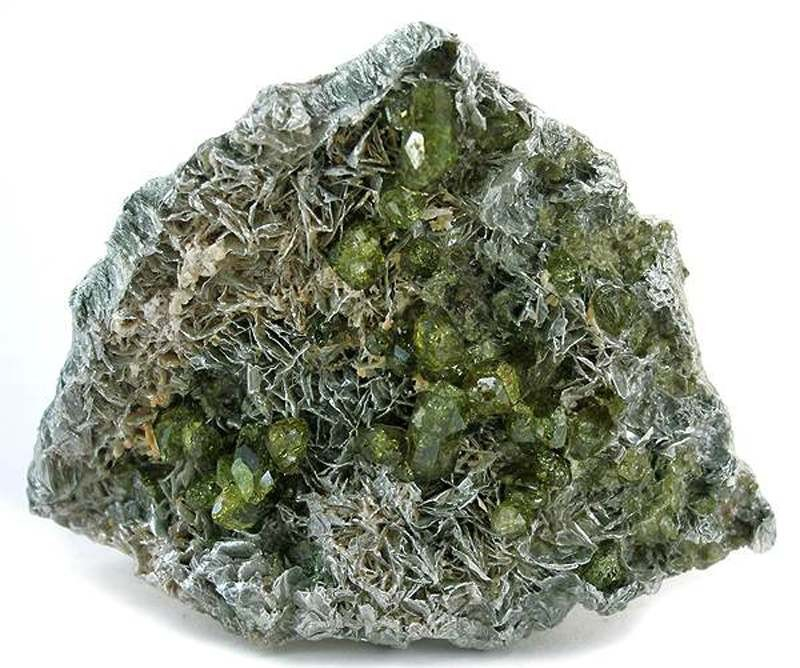 Vesuvianite, Talc Locality: Belvidere Mountain Quarries (Vermont Asbestos Group mine; VAG mine; Ruberoid Asbestos mine; Eden Mills quarries), Lowell & Eden, Orleans & Lamoille Cos., Vermont, USA (Locality at ) Size: 7.0 x 5.5 x 2.7 cm. Gemmy, glassy, sharp green vesuvianite crystals perched amidst a nest of thin, bladed talc crystals. Classic material from this important asbestos mine. Ex. Ken Hollman Collection.